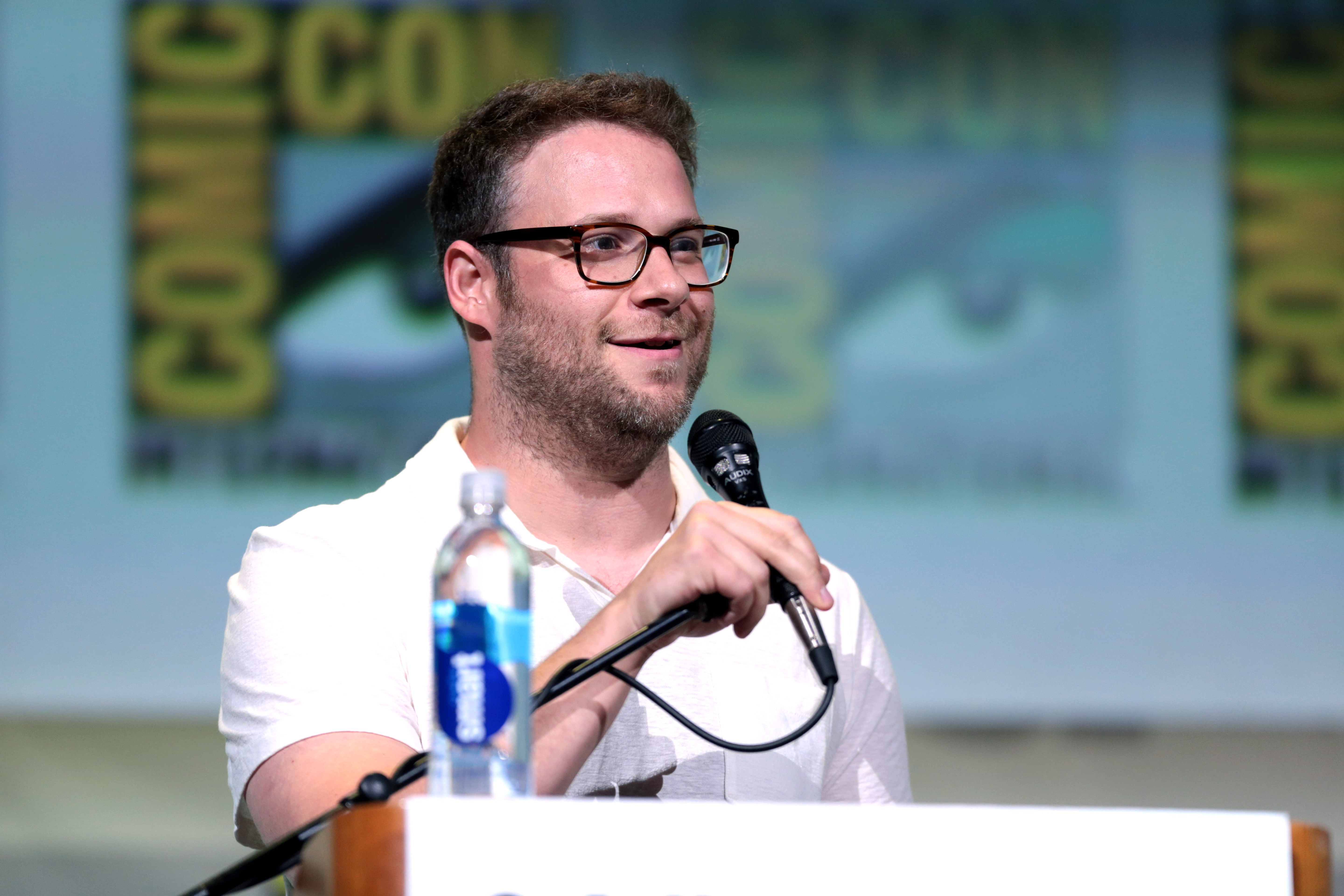 Seth Rogen speaking at the 2016 San Diego Comic Con International, for "Preacher", at the San Diego Convention Center in San Diego, California.